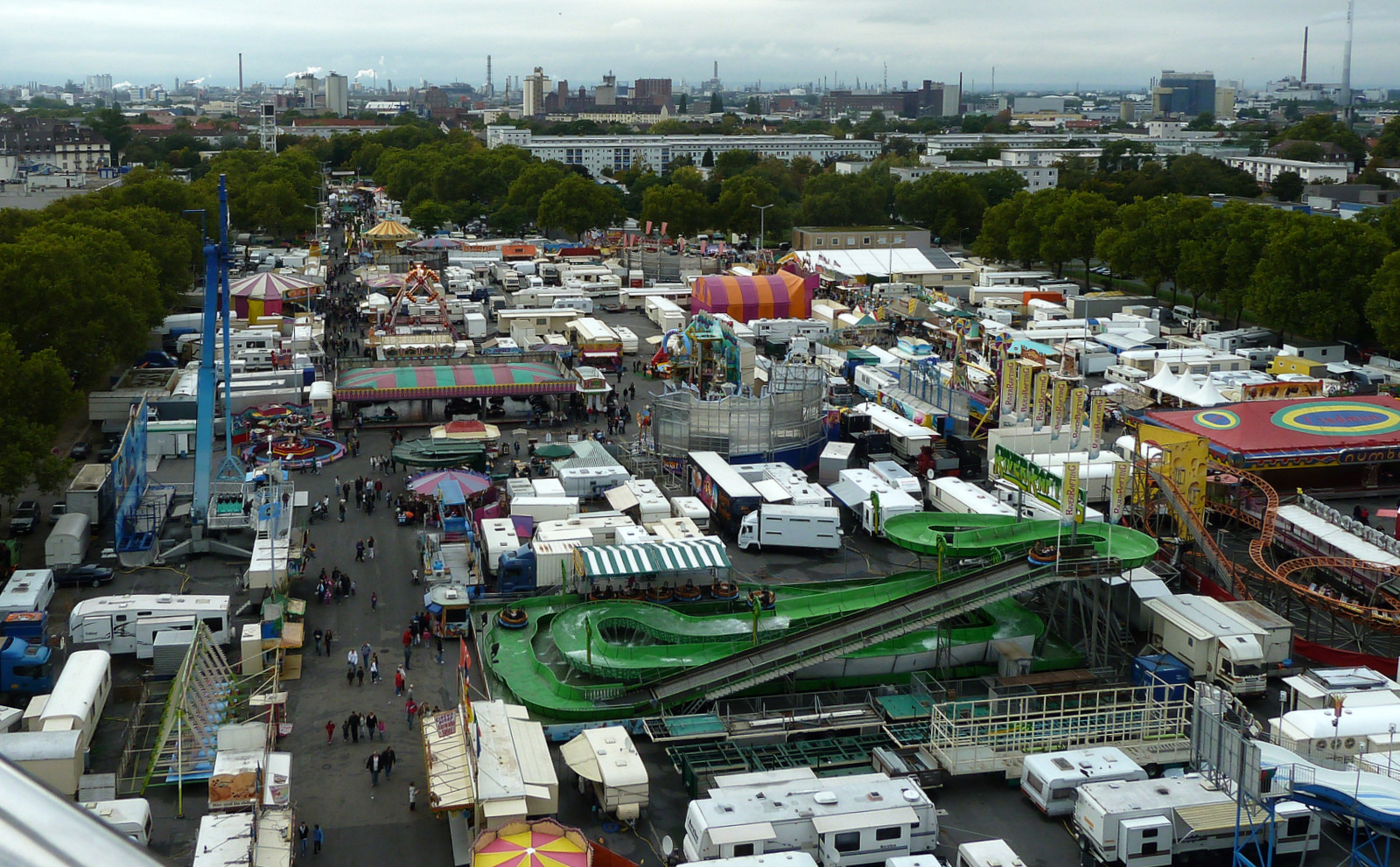 Mannheim Okt.fest 2010